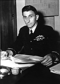 AWM Caption: 1942-05-12. AIR VICE-MARSHAL GEORGE JONES, D.F.C., NEW CHIEF OF THE AUSTRALIAN AIR FORCE. This photo is out of copyright under Australian law due to being taken before 1955.